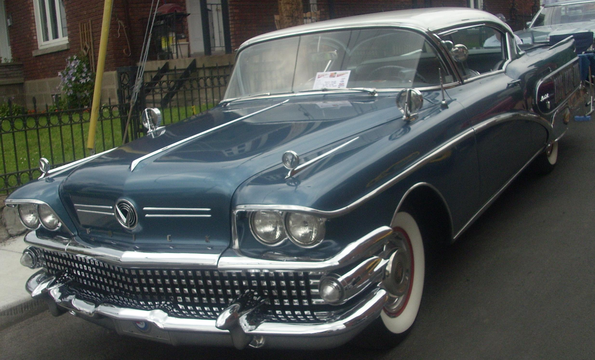 Buick Riviera Limited photographed in Ste. Anne De Bellevue, Quebec, Canada at Cruisin' At The Boardwalk 2010.